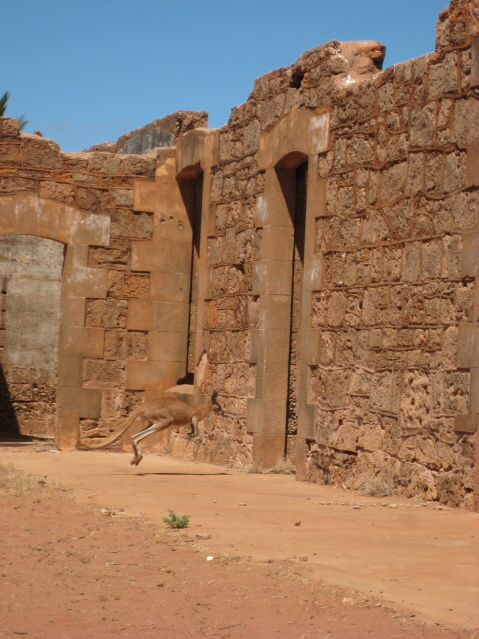 A Kangaroo in the ruins of old Onslow, Western Australia.